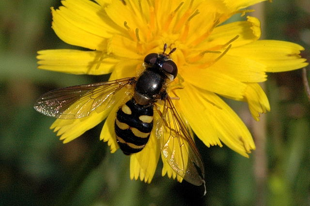 Picture taken in Commanster, Belgian High Ardennes . Species: male Dasysyrphus venustus